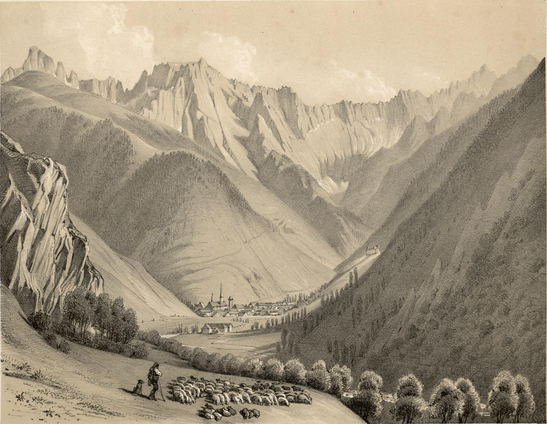 View of Vielha (Val d'Aran) during the 19th century